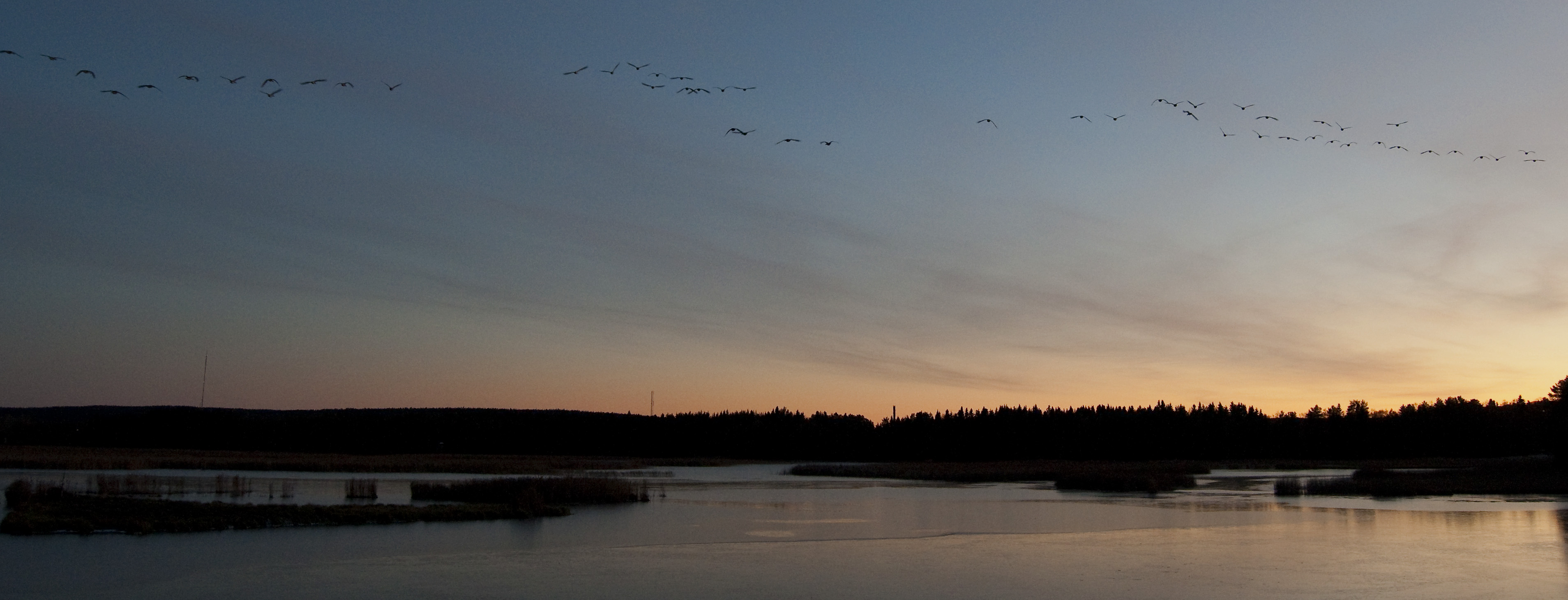 Birds fly by at Ändsjöns nature reserve in Jämtlands county.